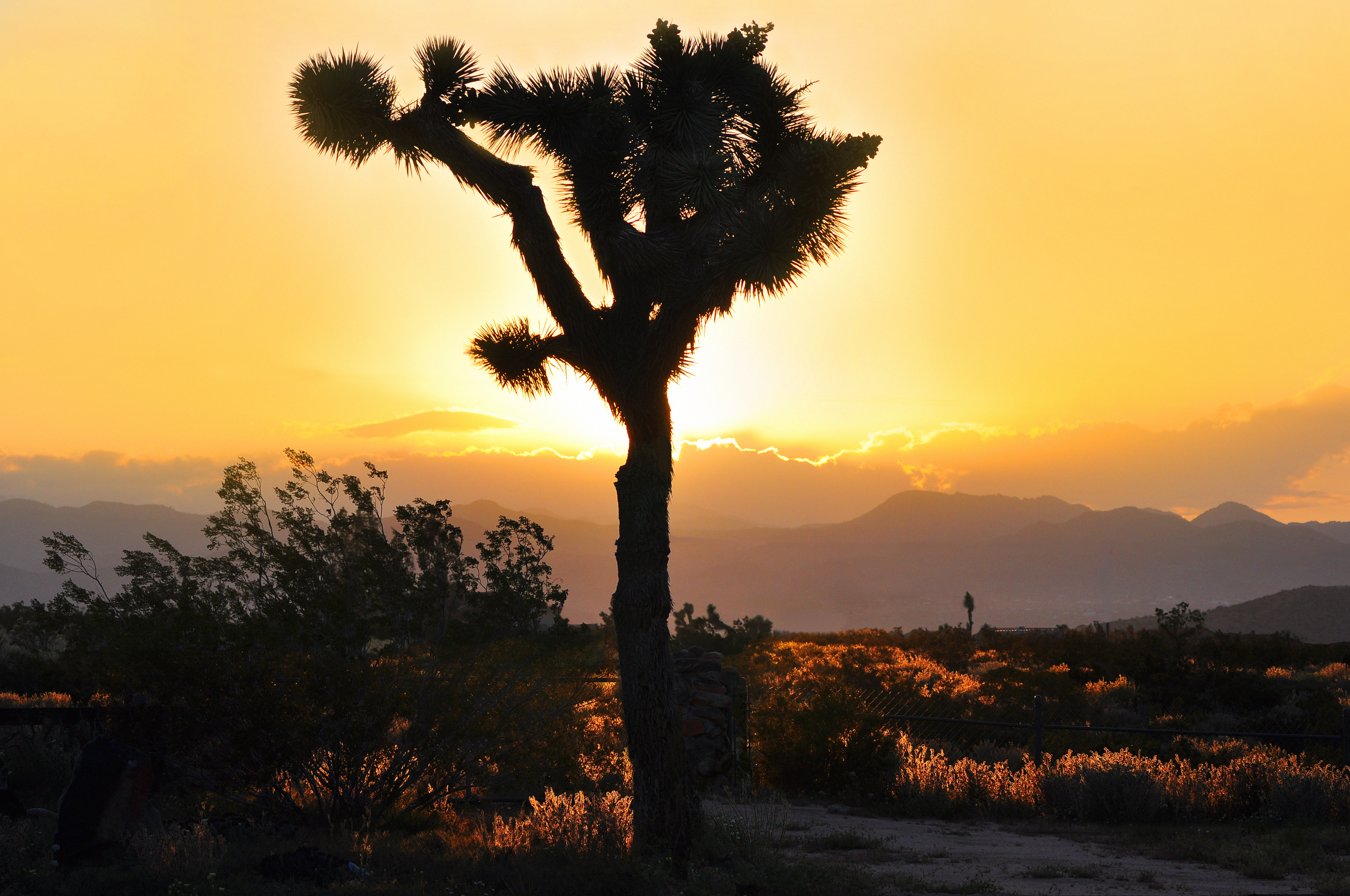 Back lit shot of an old Joshua Tree at Sunset in the Mojave desert